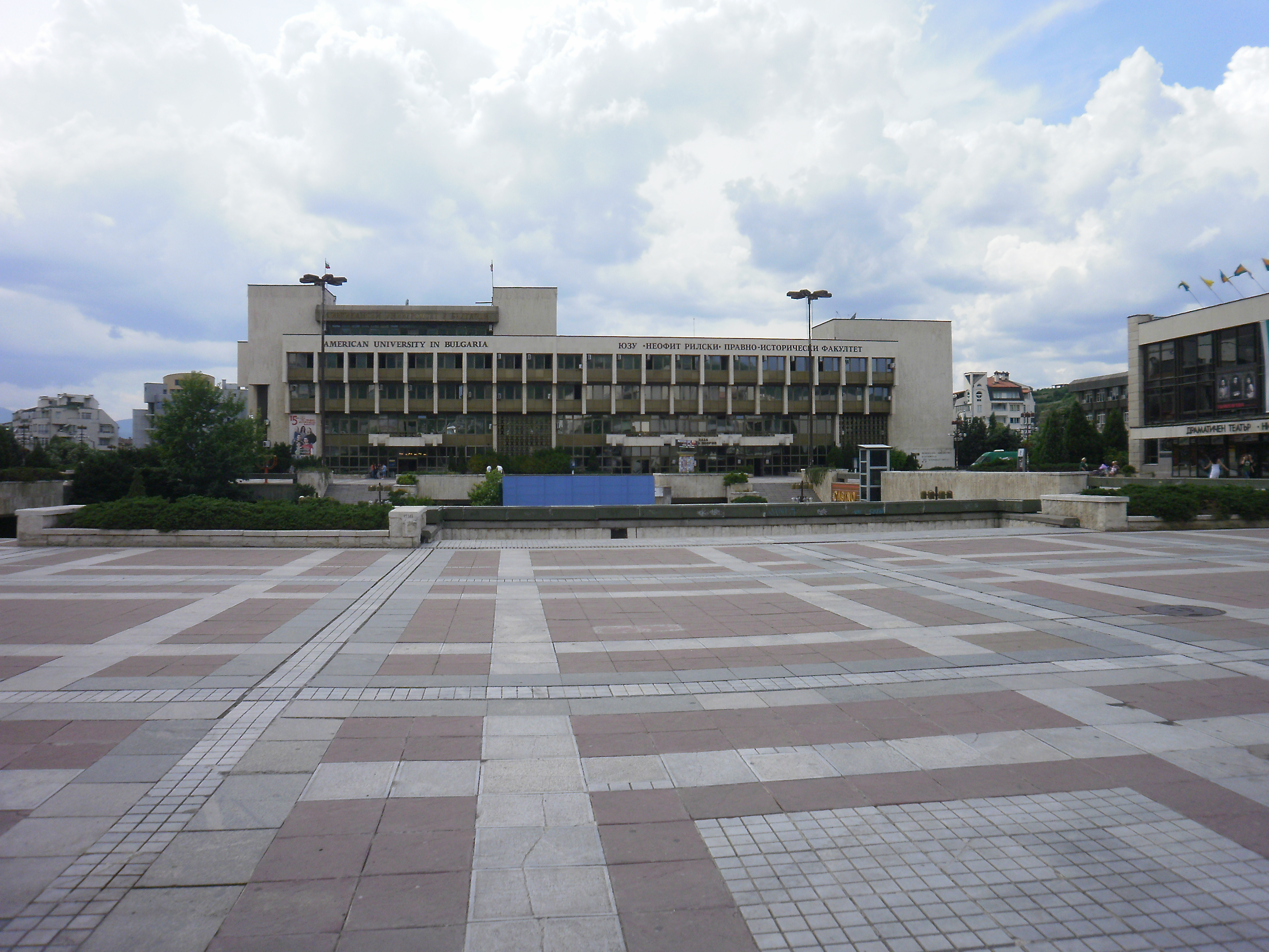 American University, Blagoevgrad, Bulgaria